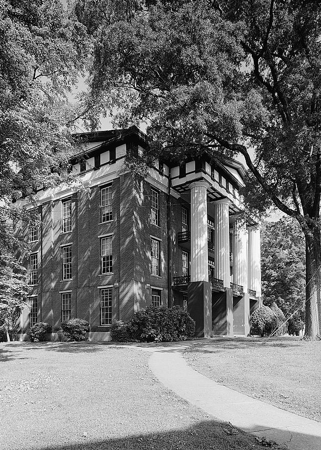 Talladega College, Swayne Hall, Talladega, Talladega County, AL. NORTHWEST PERSPECTIVE VIEW OF FRONT FACADE.